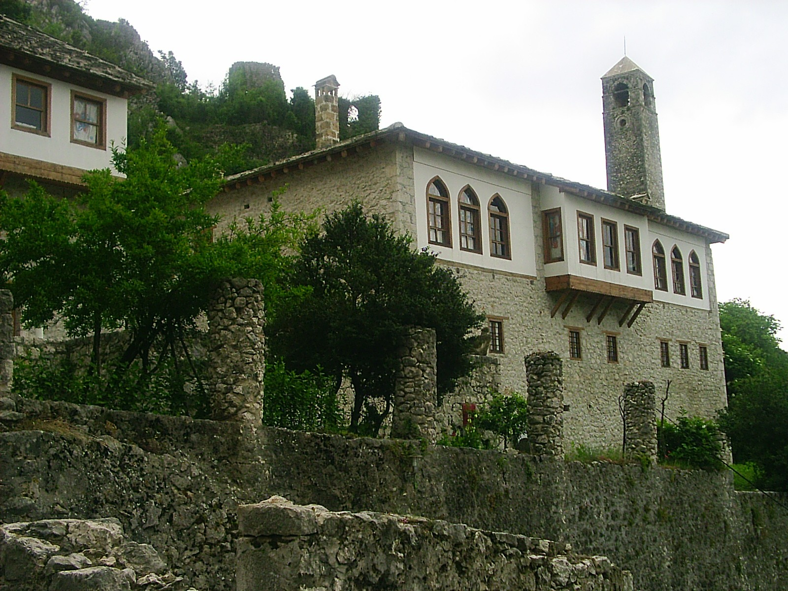 Počitelj, a town in Bosnia and Herzegovina